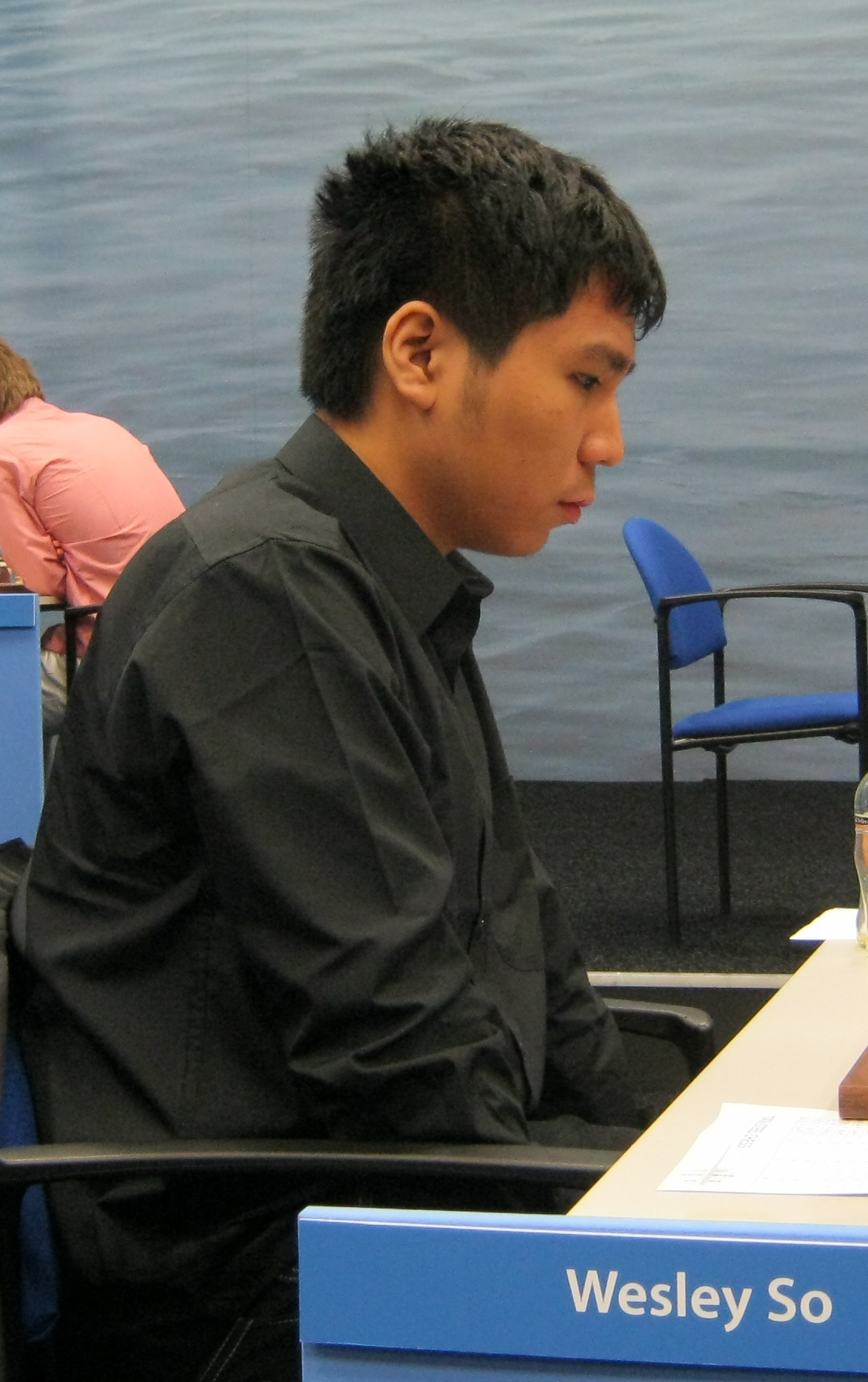 Wesley So, chess grandmaster from the Philippines